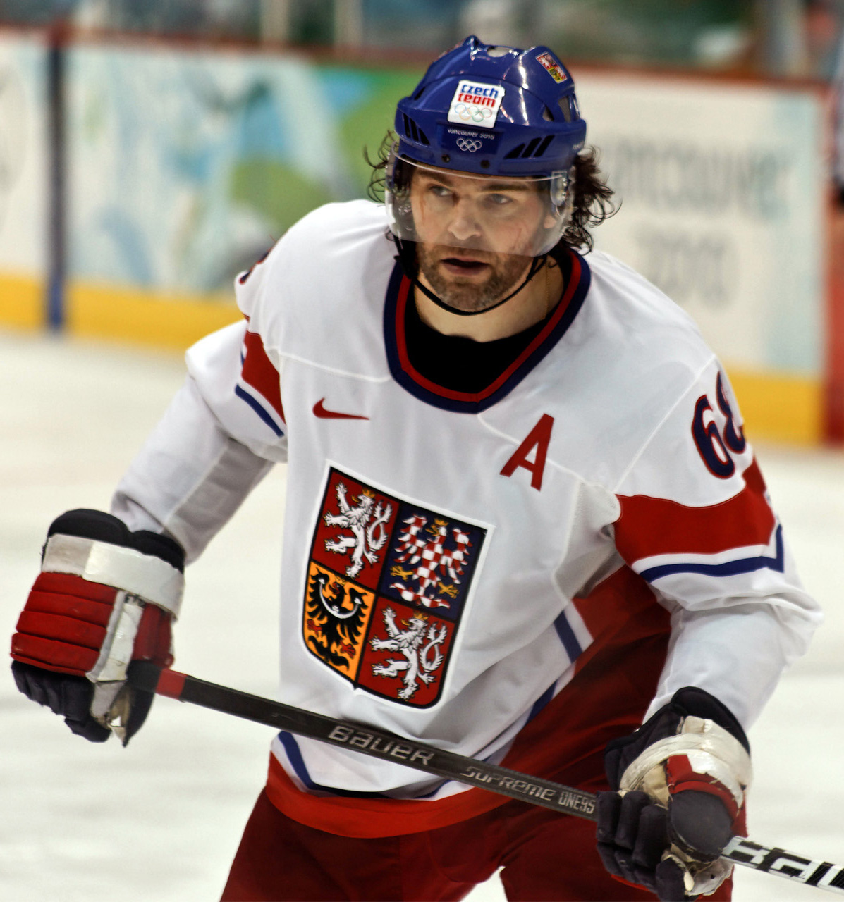 Superstar Jaromir Jagr of the Czech Republic. This file has been extracted from another file: JaromirJagr2010WinterOlympics.jpg